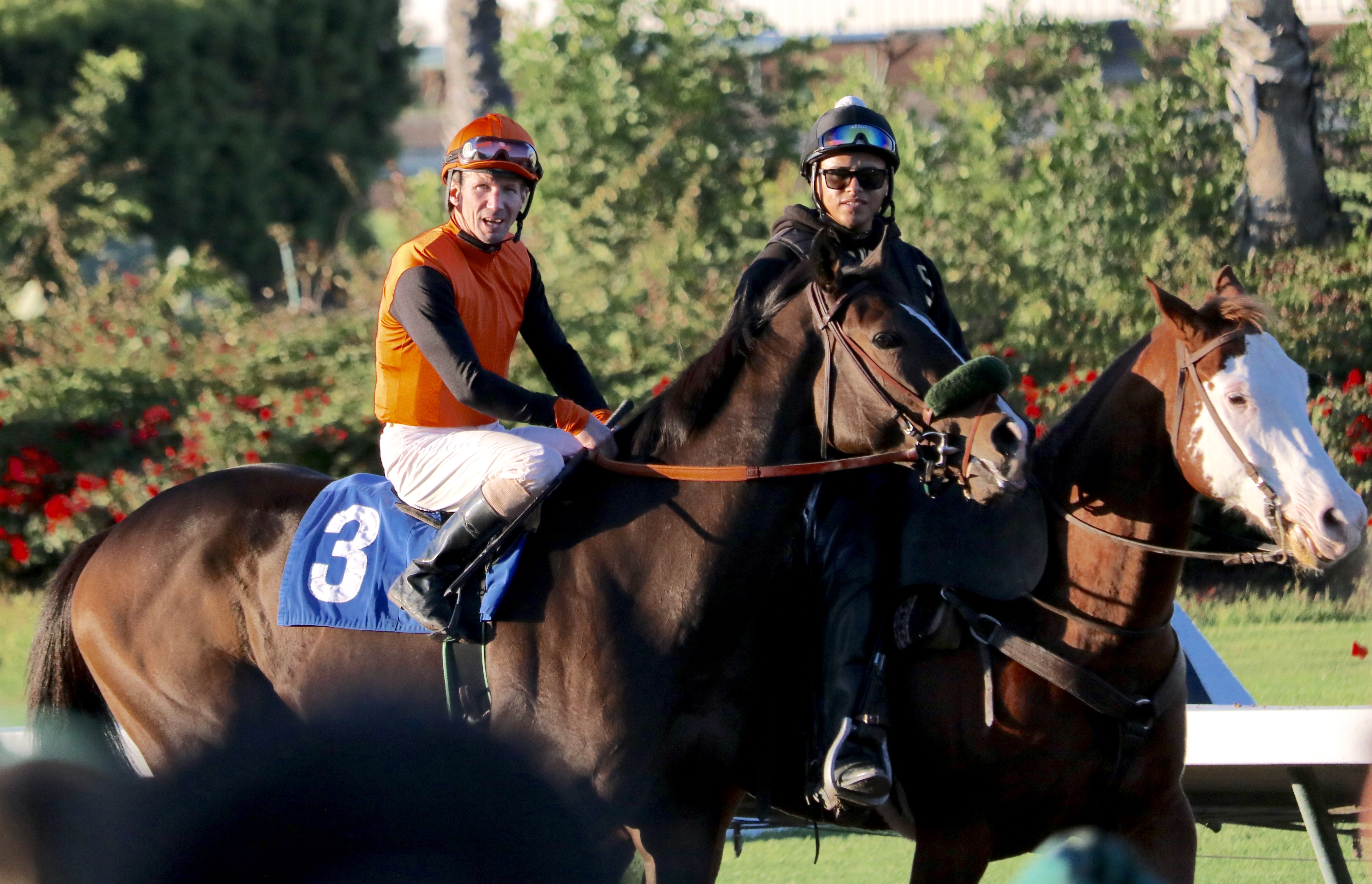 Stewart Elliott at Los Alamitos racetrack December 17, 2016